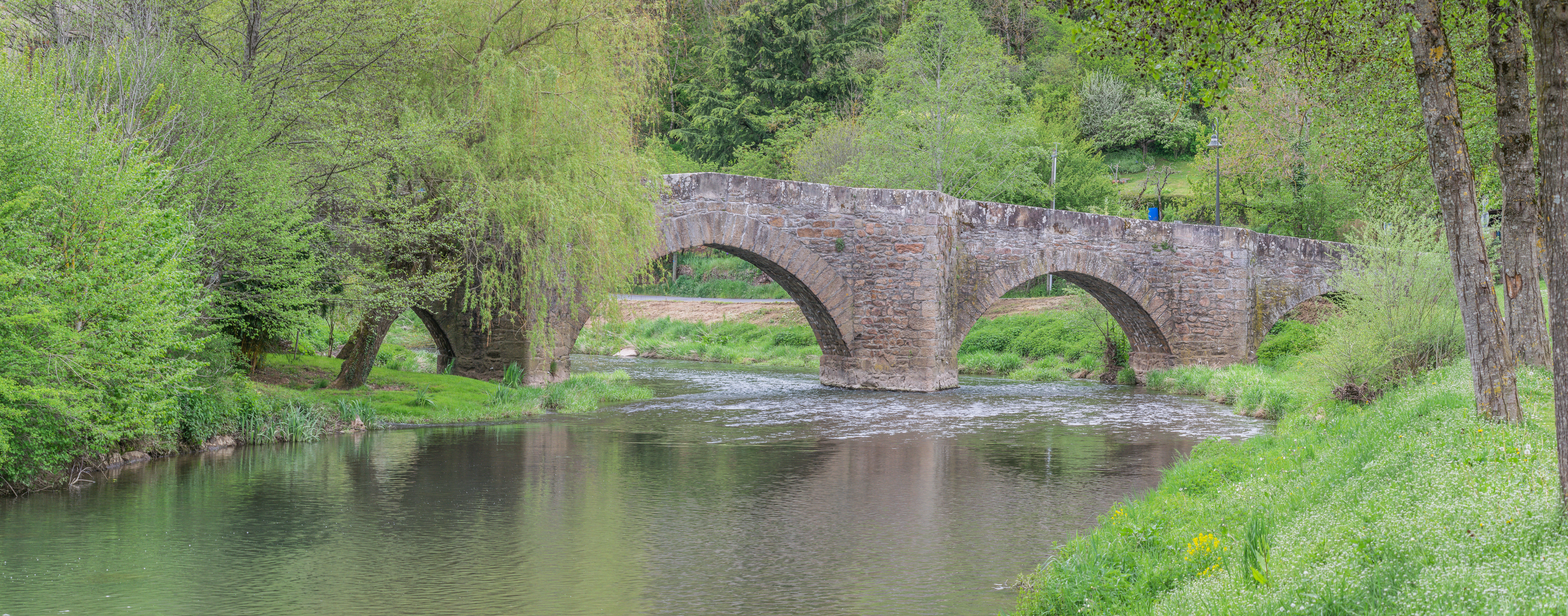 Pont de Layoule in Rodez, Aveyron, France .